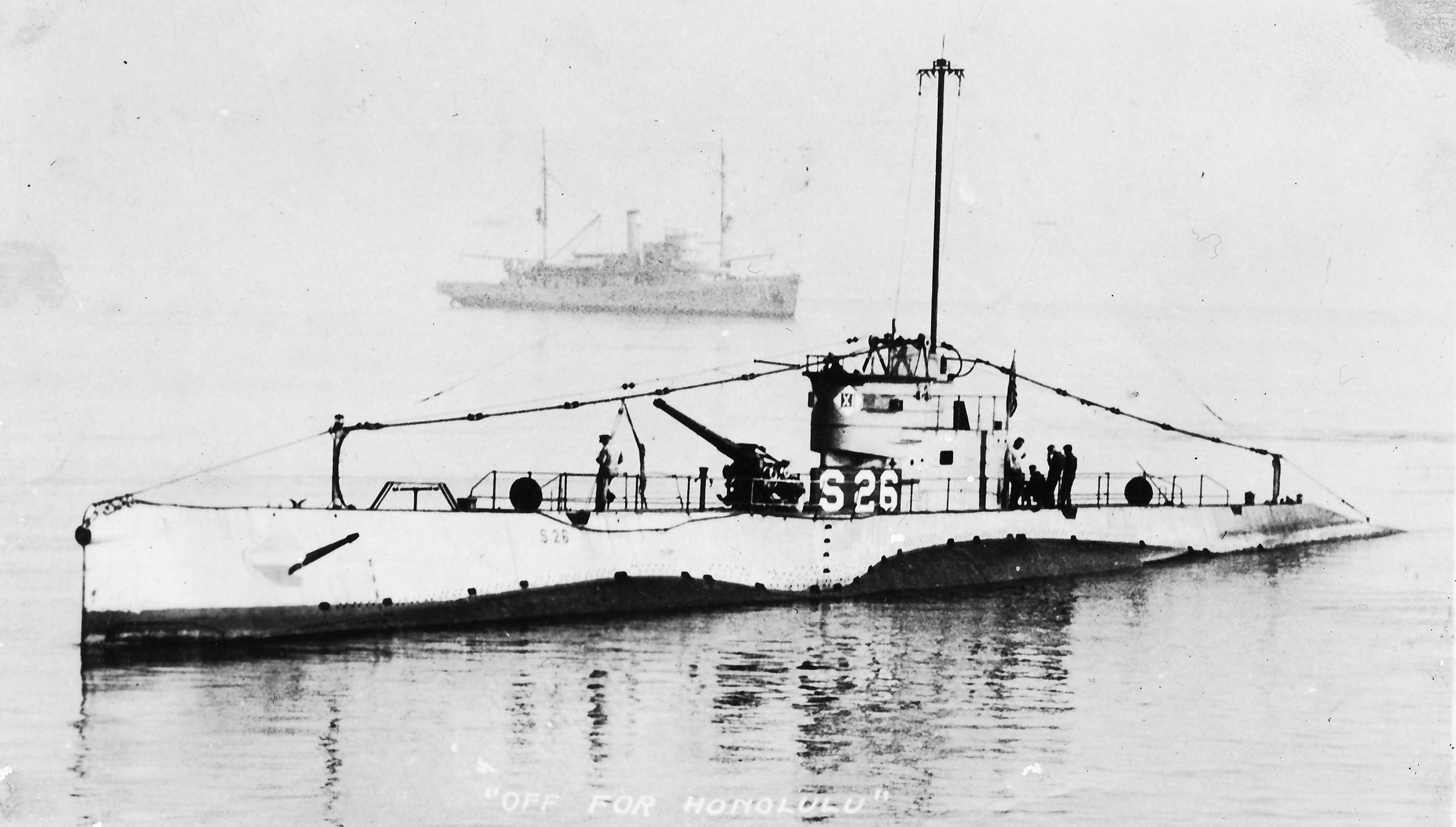 United States Navy submarine , probably at San Diego, California